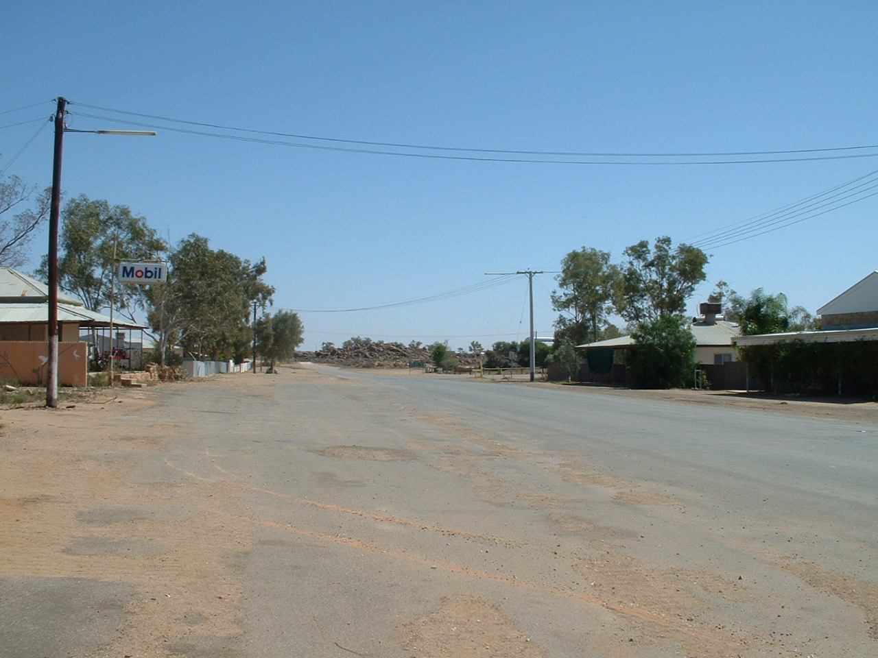 View north along the main street of Tibooburra, New South Wales.